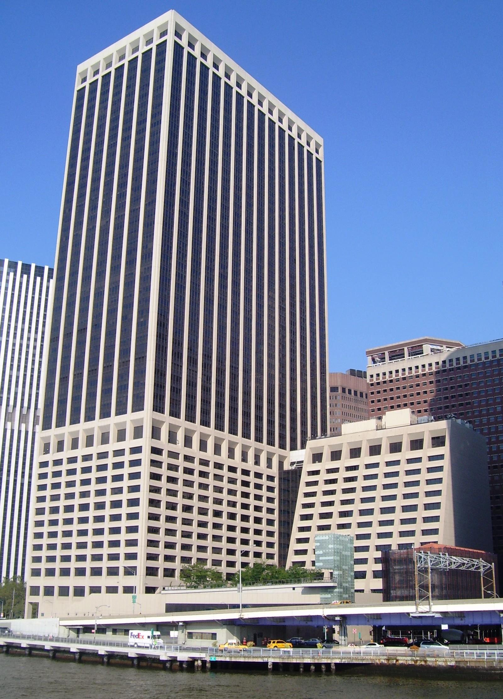 55 Water Street in the Financial District of Manhattan, New York City, with its 15-story north wing, as seen from the East River. The building is the headquarters for Standard and Poors, and contains a branch of the Whitney Museum.